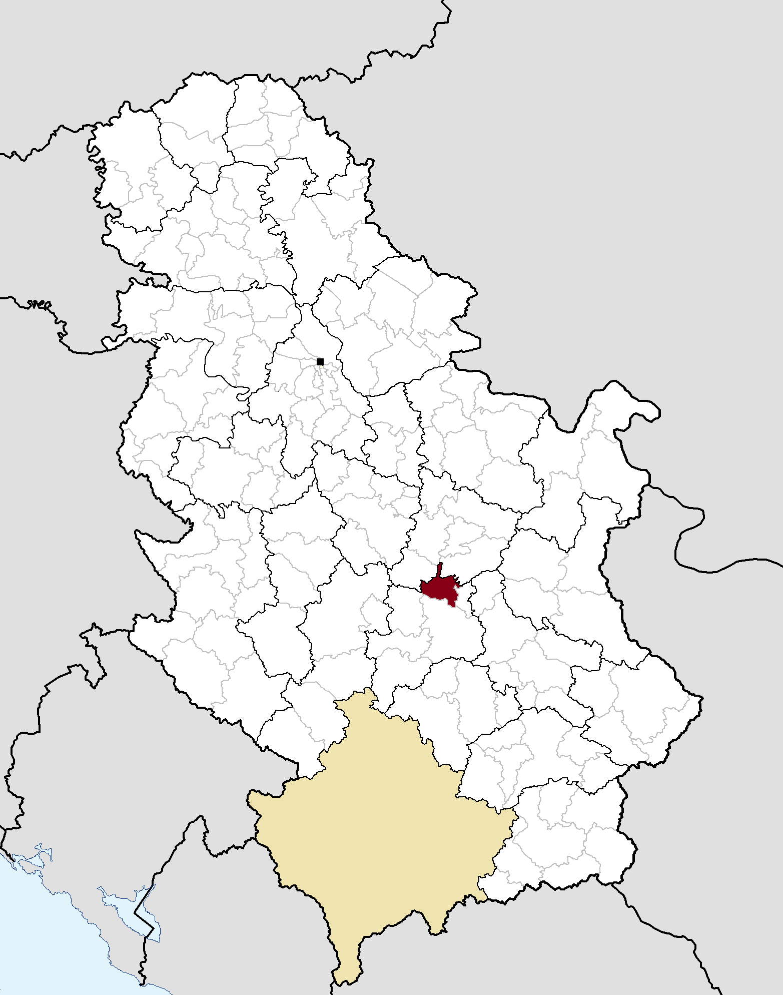 Municipal location in Serbia